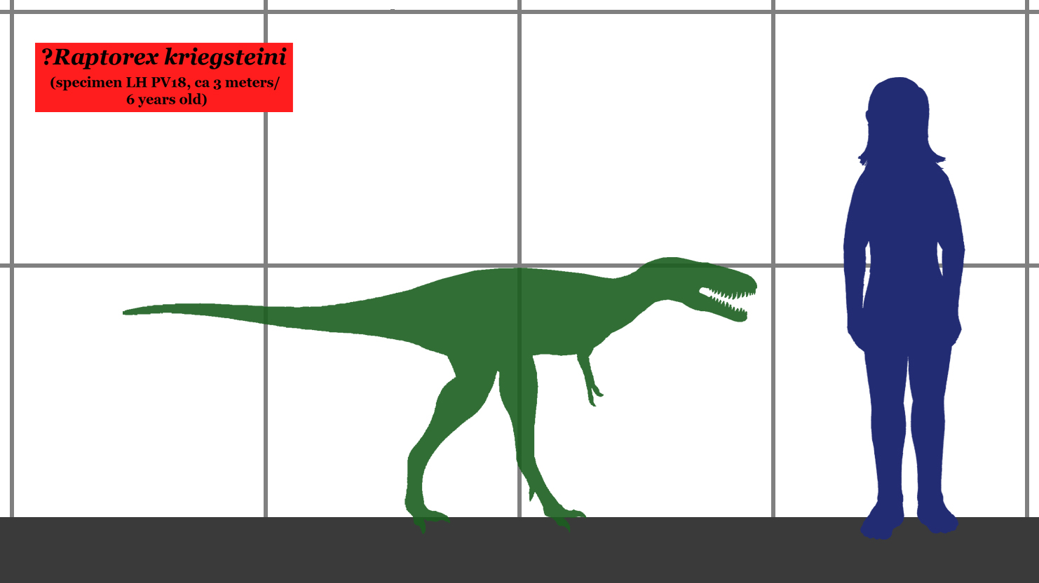 Size comparison between the theropod dinosaur Raptorex kriegsteini and a human.